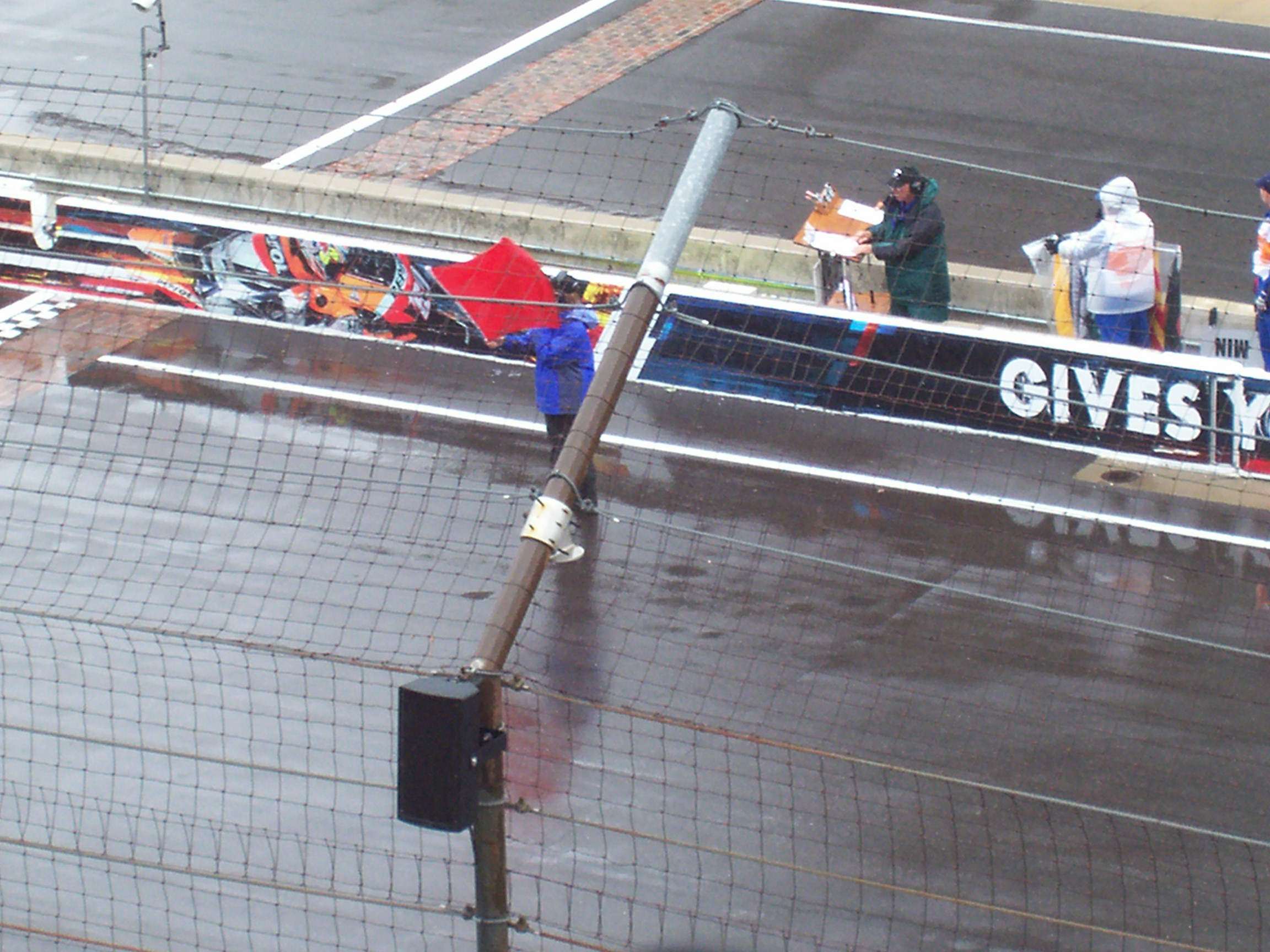 The red flag is displayed on lap 21 of the MotoGP race at the 2008 Indianapolis motorcycle Grand Prix.